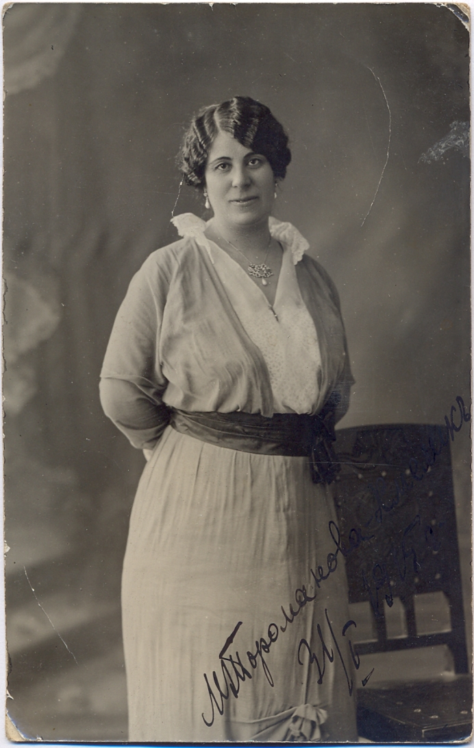 Bulgarian actress Maria Toromanova-Hmelik. A photo with an autograph in the archive of the actor Sava Ognyanov